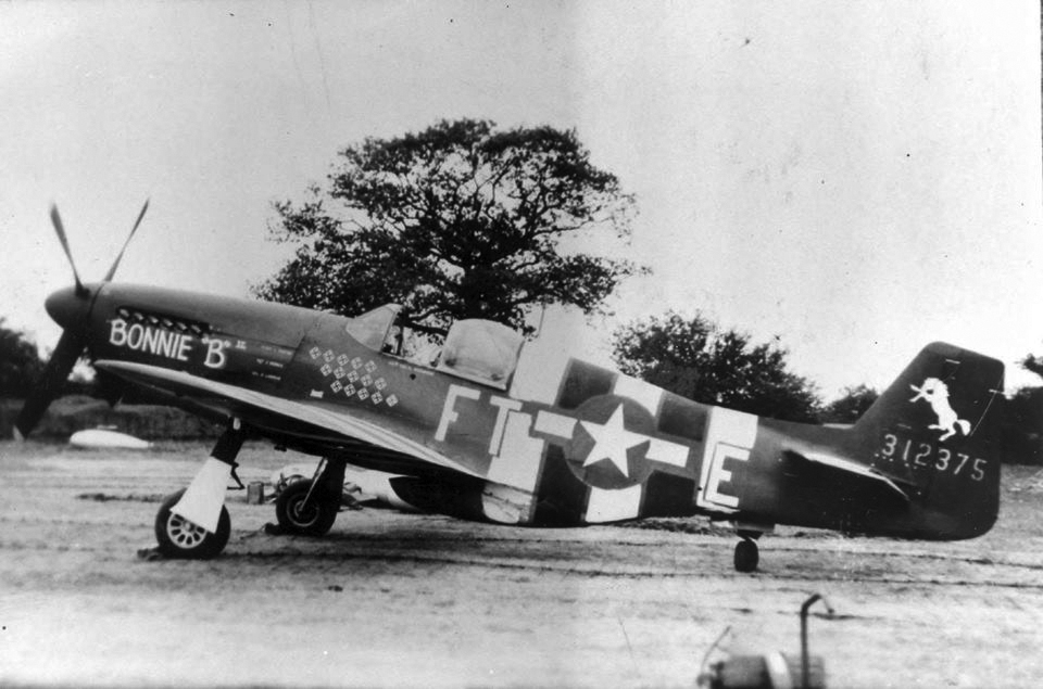 P-51B Mustang (43-12375) FT*E "Bonnie B" of the 353rd Fighter Squadron, 354th Fighter Group, 8th Air Force.